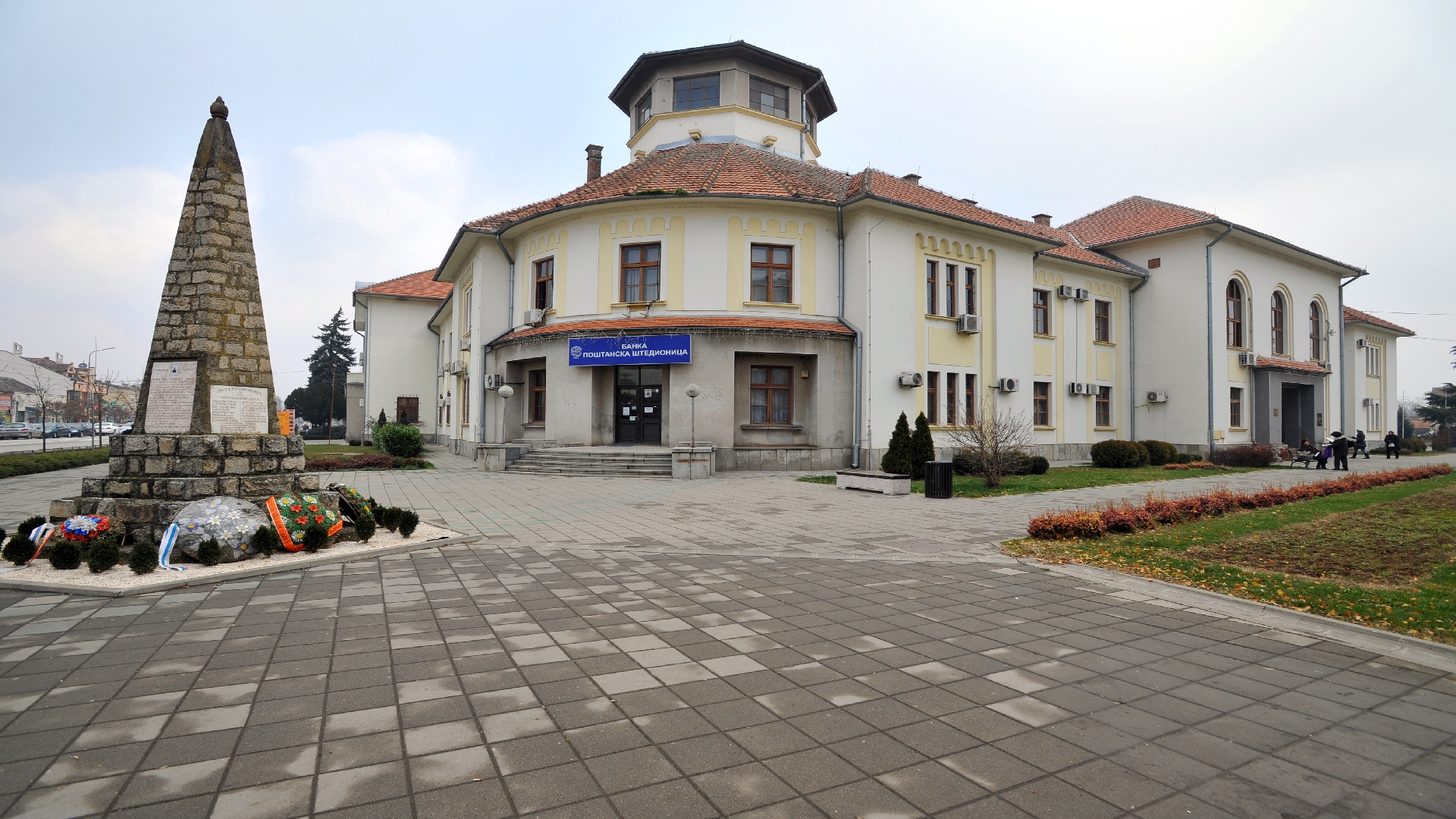 Building of the old district authority in Bogatić, general view with monument